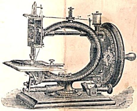 Gresham & Craven Sewing Machine, from the cover of the manual.